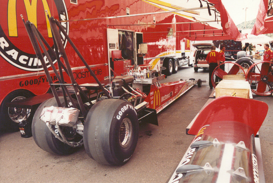 NHRA driver Ed "Ace" McCulloch in McDonald's Top FuelerEd McCulloch